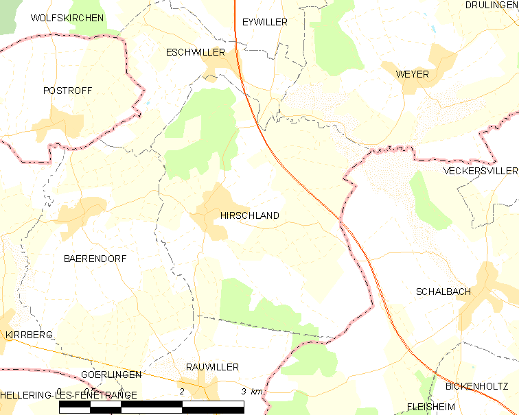 Map of French municipality